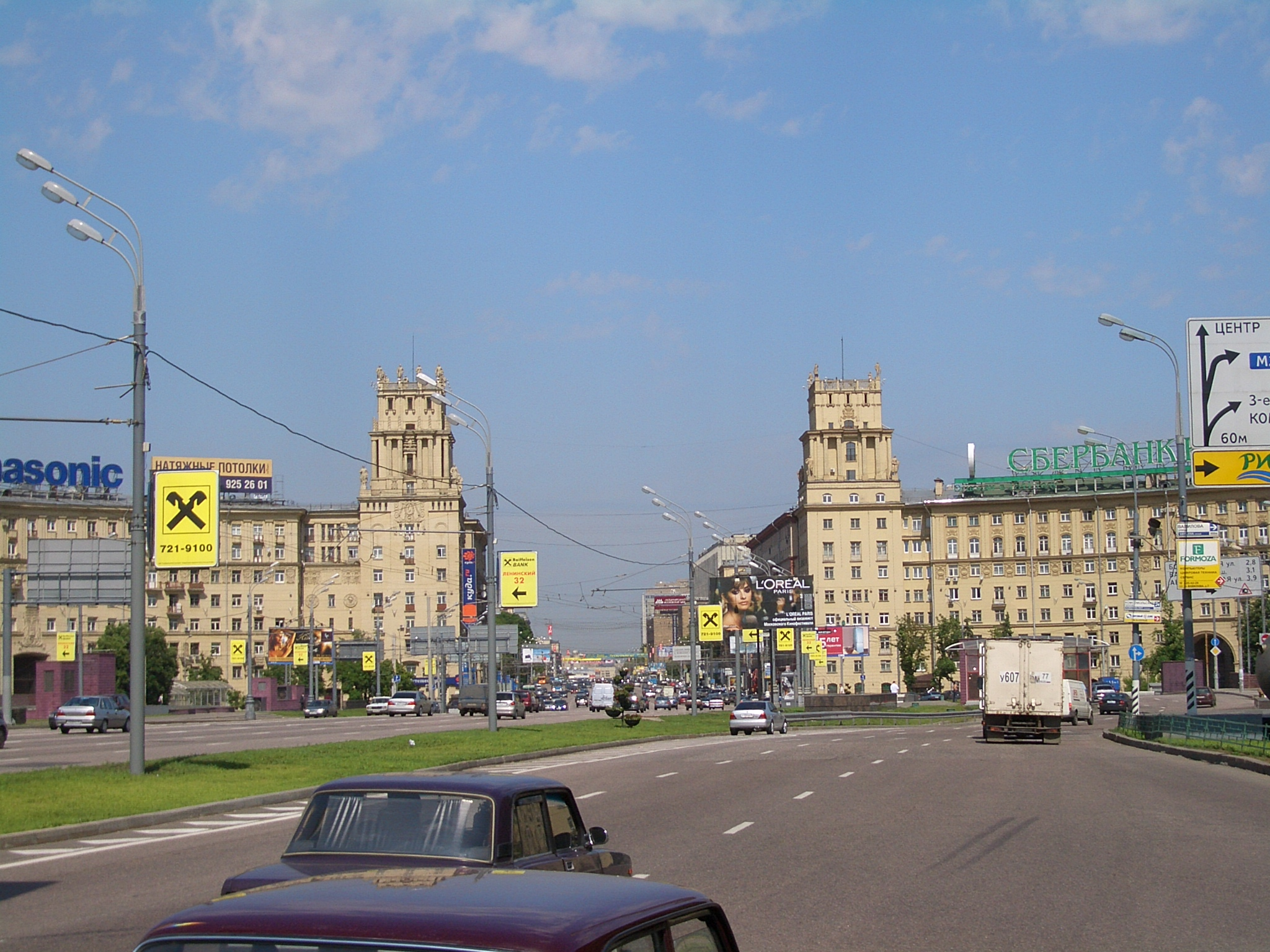 The 1950s era building in Gagarin Square in Moscow. Note the difference between the one on the left and the one on the right.